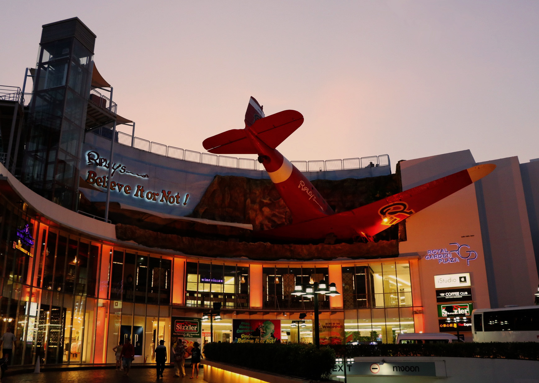 The oldest mall in Pattaya city which is best known for its icon "The Red Ripley's plane crashing into the building" viewing from Rd. 2, South Pattaya.